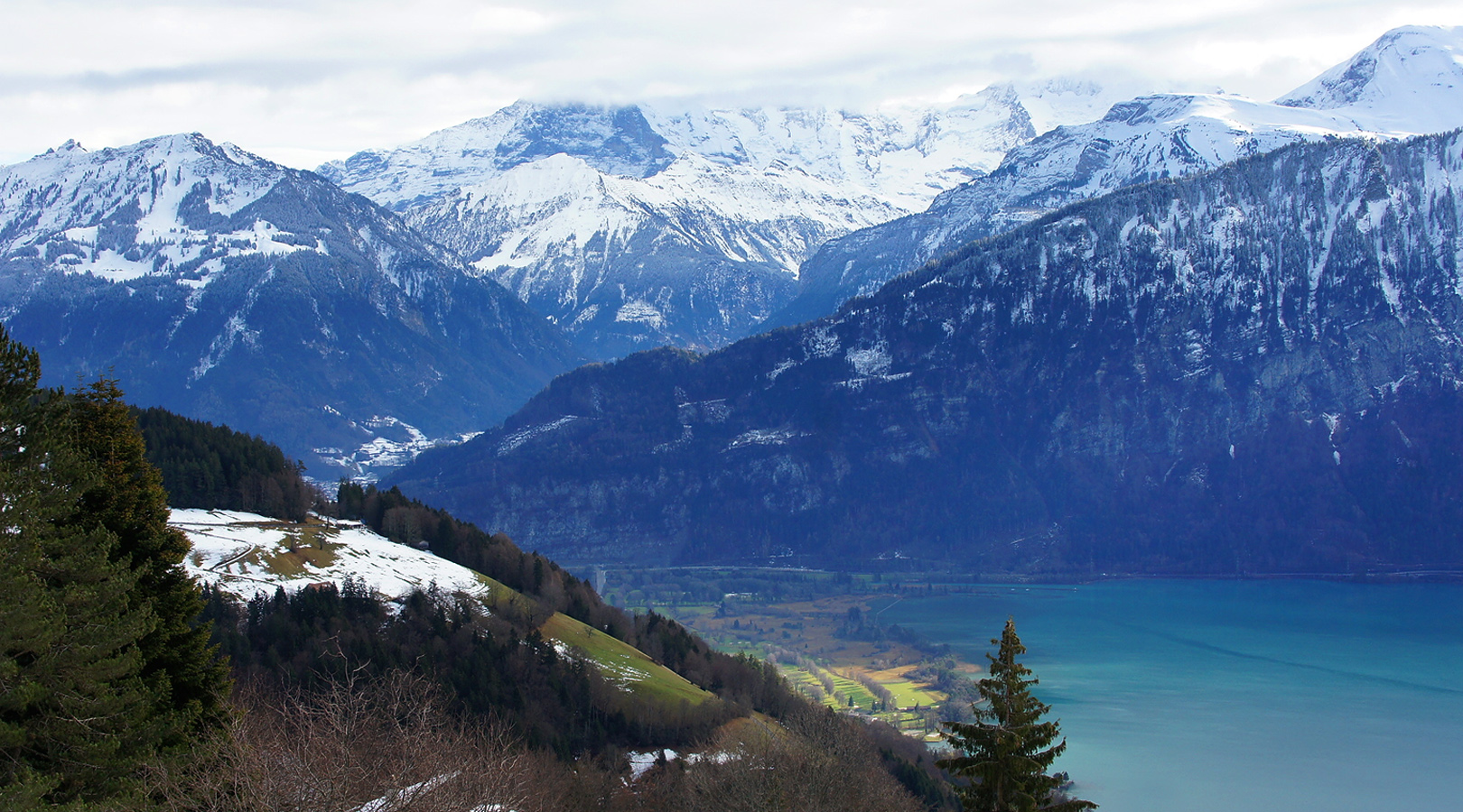 Swiss Alps 002